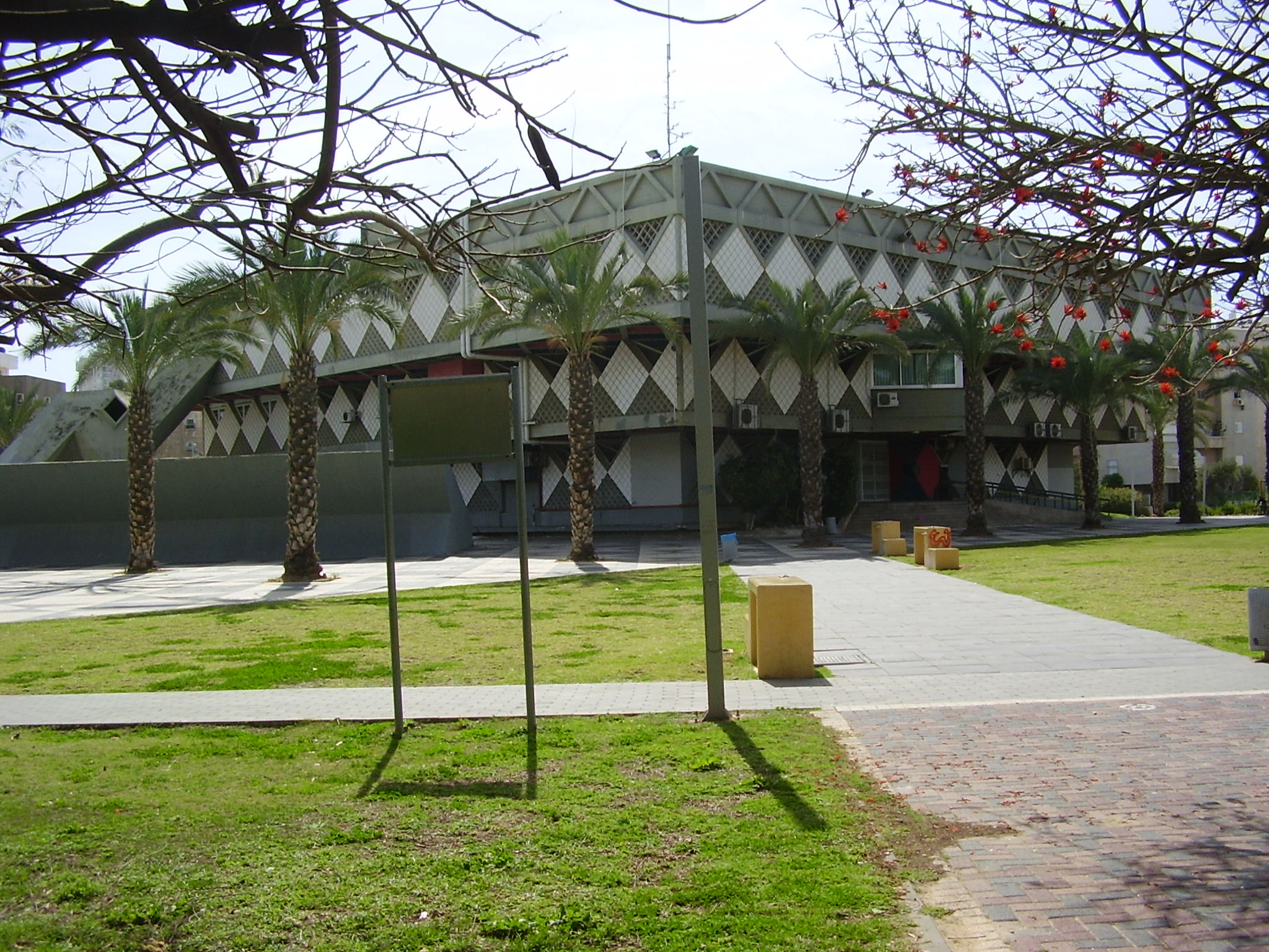 bat-yam municipallity